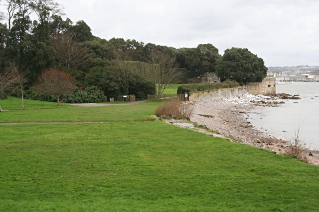 Across Barn Pool to the Formal Gardens Barn Pool is the little bay where in the year 997 the Vikings came ashore. Beyond the grass are the trees of the formal gardens. The stonework on the far end of the bay is the Garden Battery which was originally built in 1747 as a "saluting platform" to welcome visiting ships and was equipped with 21 guns should that number be needed for the salute. Its current shape however owes more to being rebuilt in 1863 as a proper defensive gun battery.